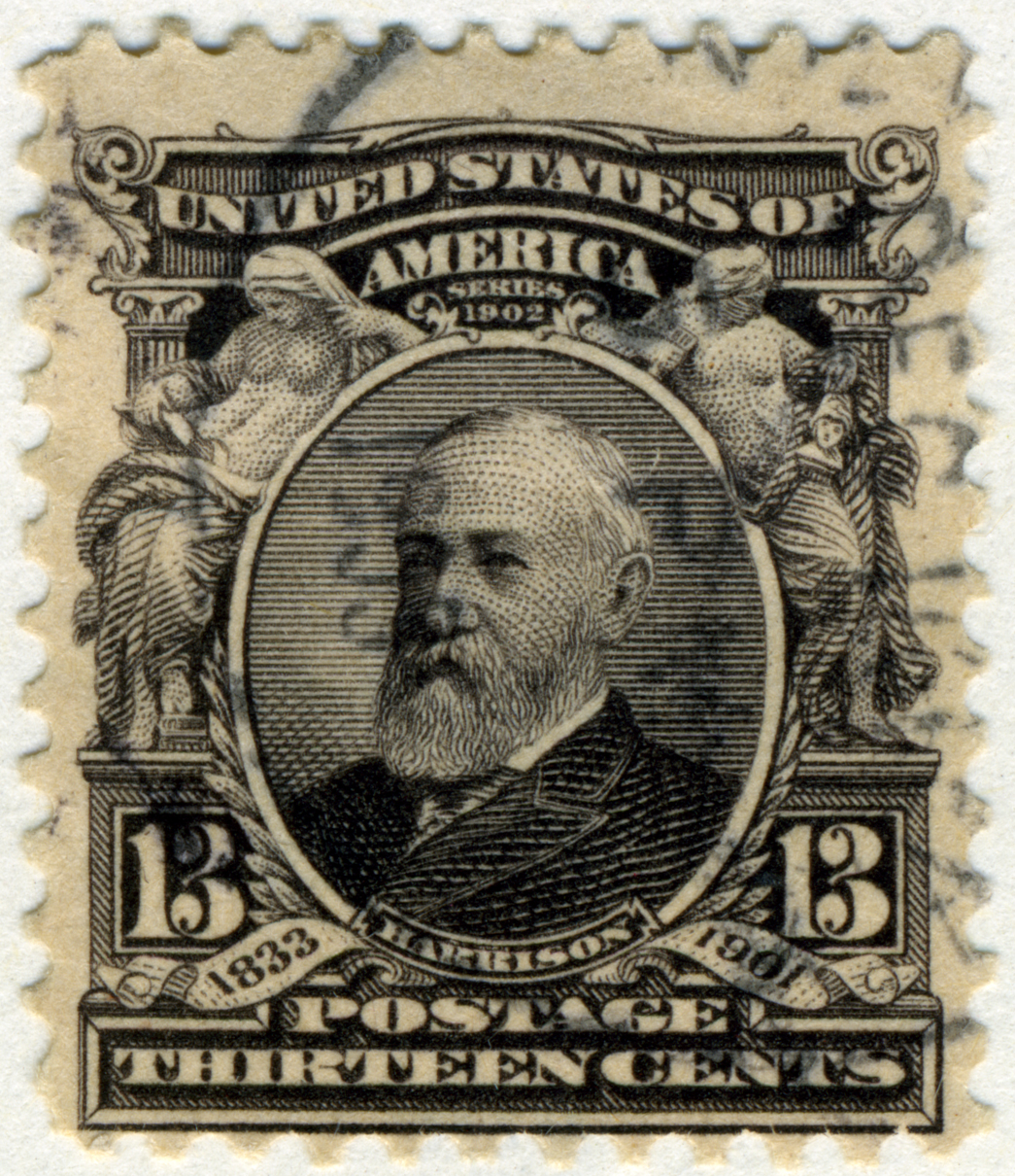 13-cent 1902 series United States postage stamp, perforated (12) with double-line watermark, depicting Benjamin Harrison.